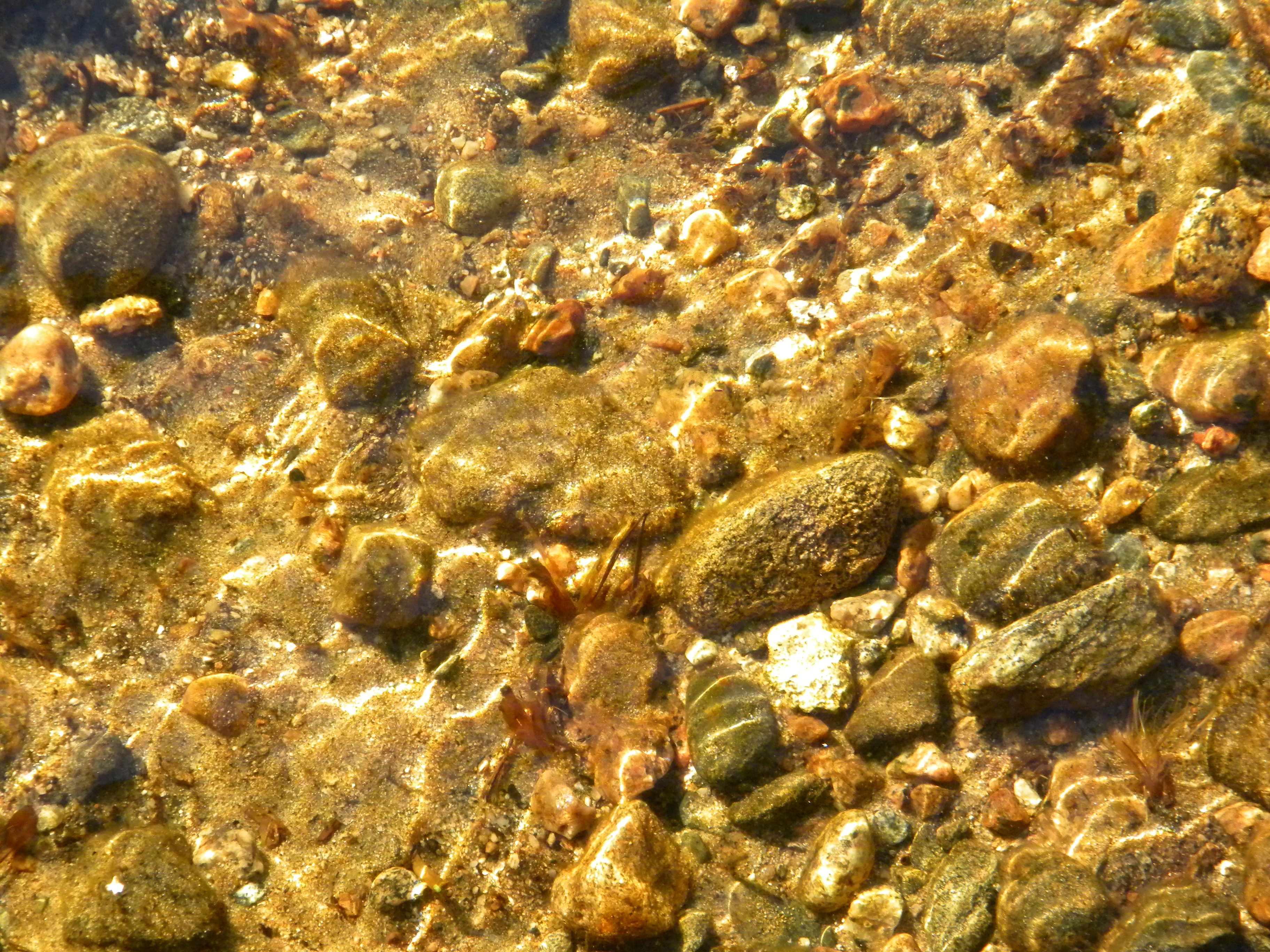 River and its bottom is part of ecosystem at the Repovesi National Park. Beautiful small details of wild nature can be found in various National Parks.